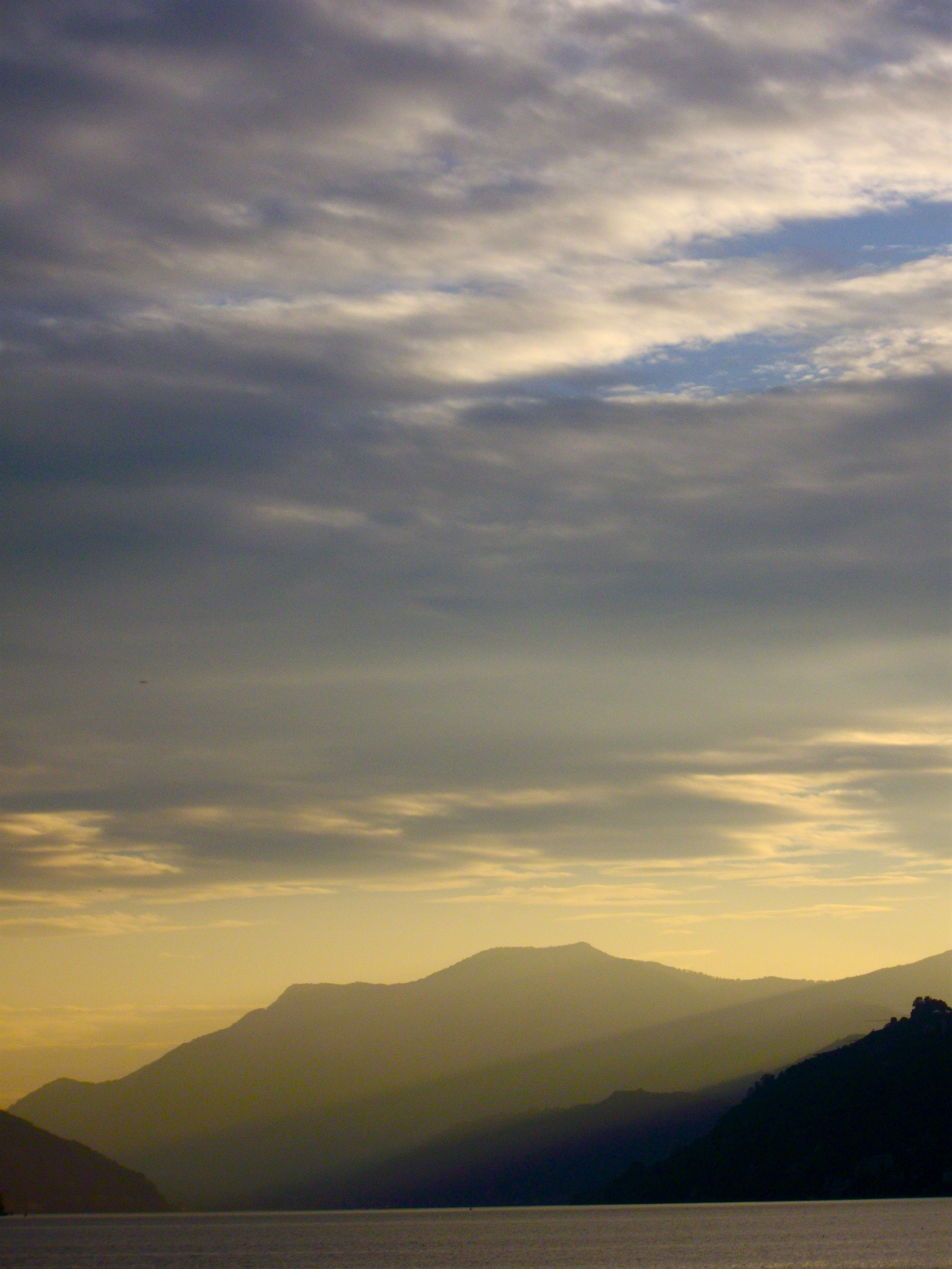 Sunset over lake Lugano, from Bissone, Ticino, Switzerland